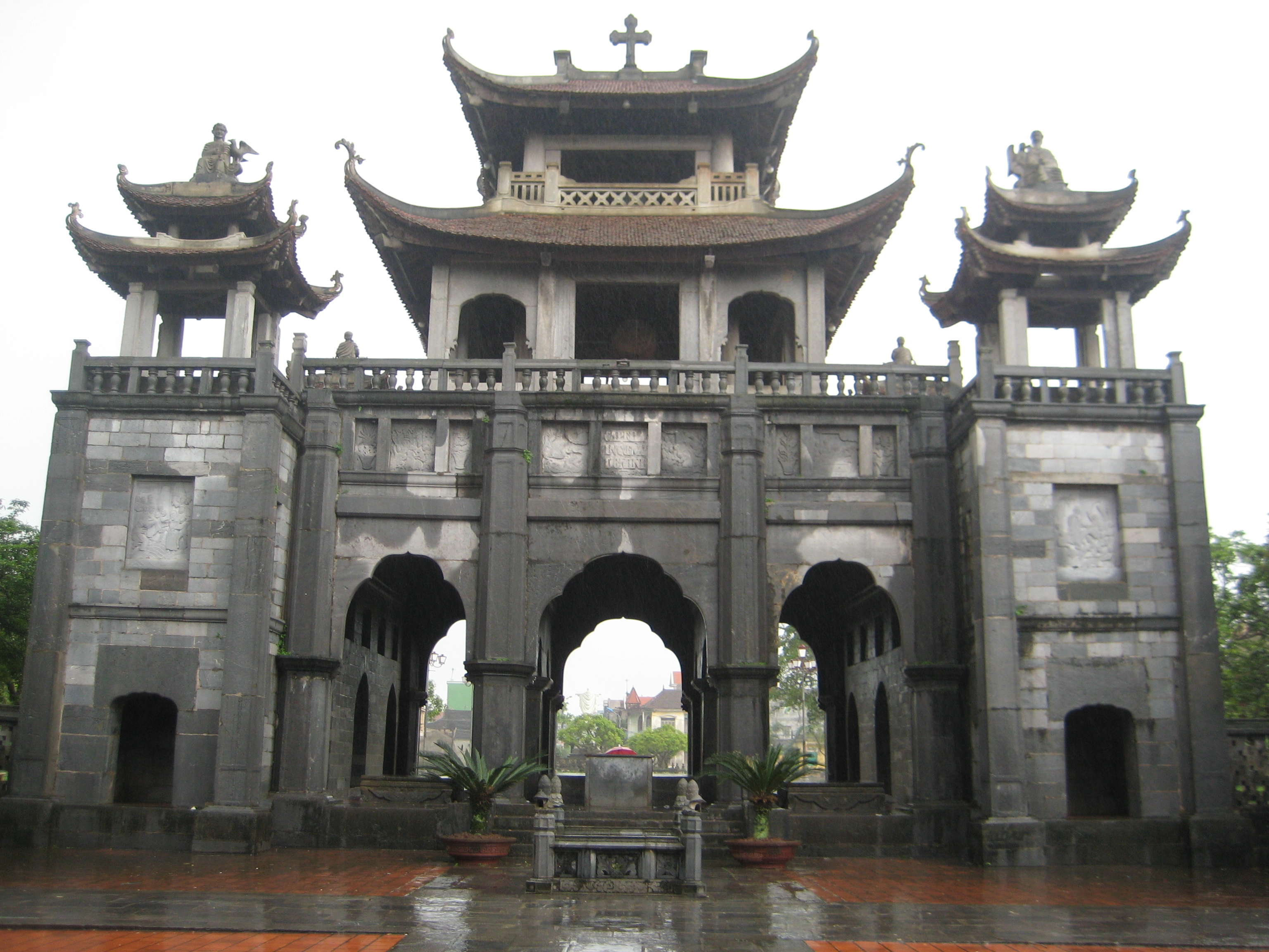 Phat Diem Cathedral - a unique scenic spot at Ninh Binh